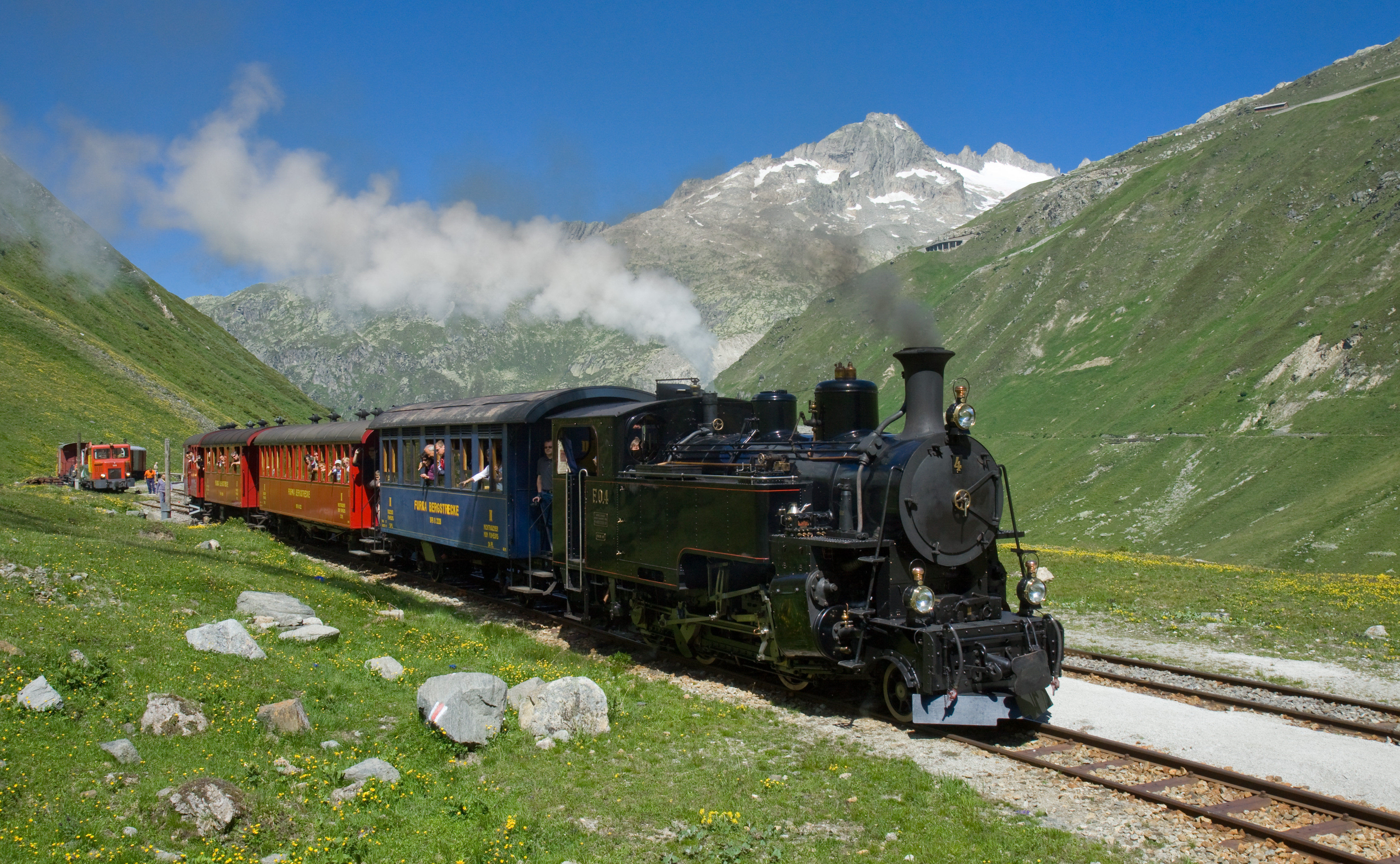 Rack-and-adhesion locomotive HG 3/4 nr. 4 of the Dampfbahn Furka-Bergstrecke at the Muttbach-Belvedere Station, where the line enters the Furka Summit Tunnel.